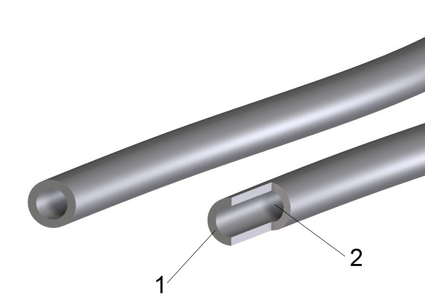 sketch of a hollow fibre as used in optics, technics and textiles (1=cladding, 2=hollow core)